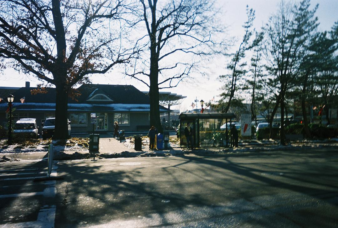 Port Washington (LIRR station) as seen from the intersection of Herbert Avenue and Main Street. Originally loaded on Wikipedia and tagged for commons. However due to the fact that the commons helper failed to move the image automatically, I'm doing it manually.